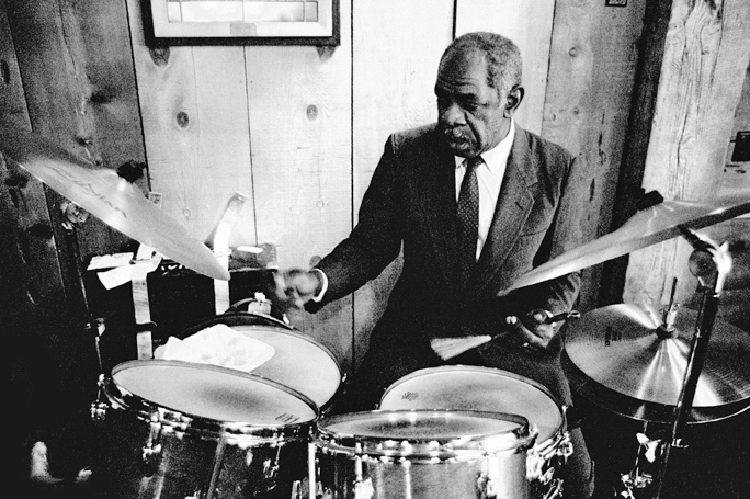 Mickey Roker w/Milt Jackson at Bach Dancing & Dynamite Society, Half Moon Bay CA 1980s. Photo: Brian McMillen /